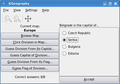 Kgeography "Guess Division From Its Capital" mode